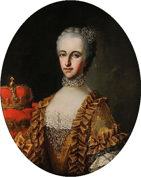 Portrait of a wife of Joseph II, So-called portrait of Isabella of Parma (1741-1763), but probably portrait of Maria Josepha of Bavaria (1739-1767).